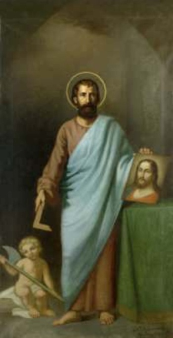 St. Apostle Judas Thaddeus